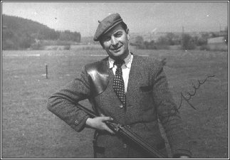 Frantisek Capek